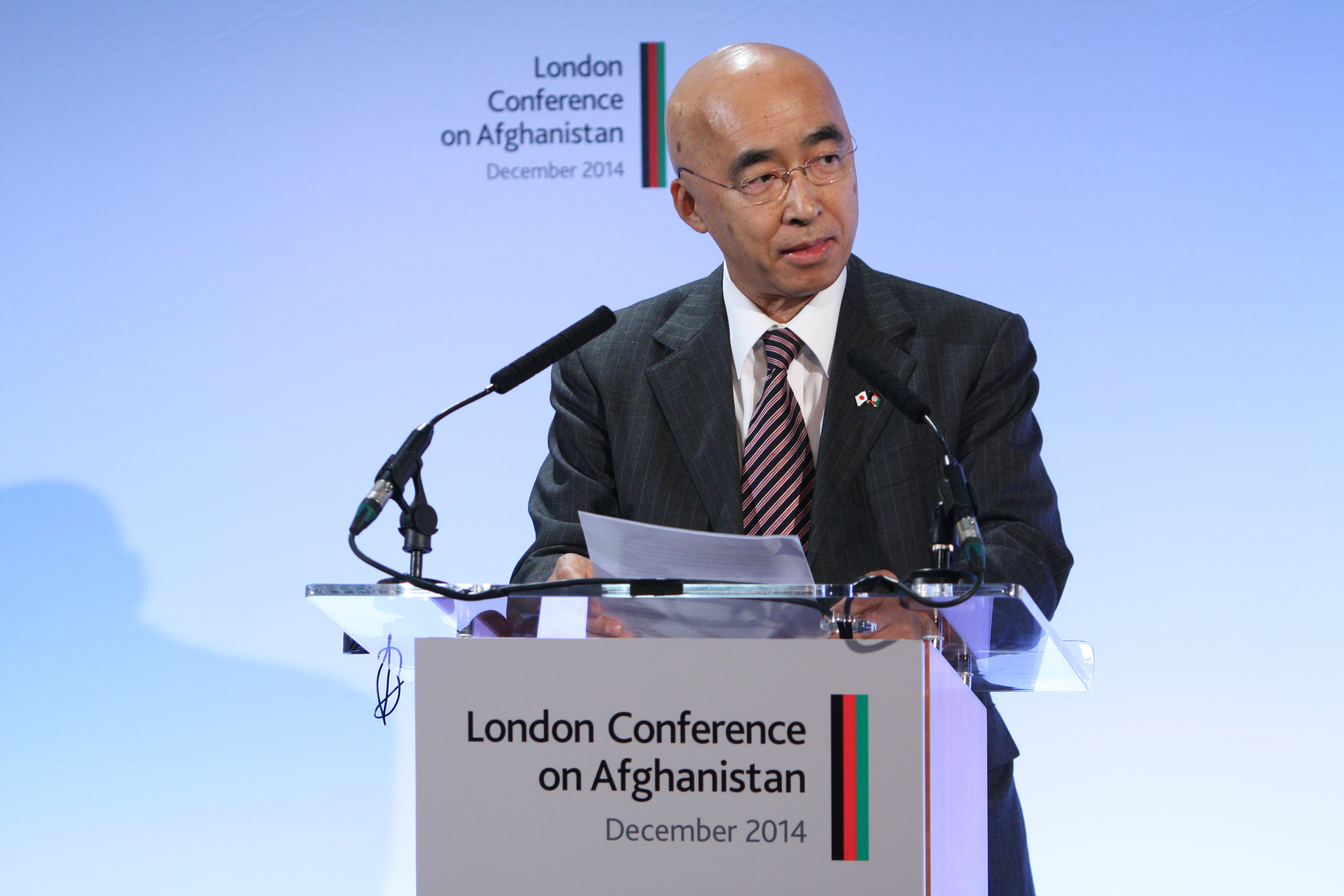 The London Conference on Afghanistan takes place on 4 December 2014, co-hosted by the governments of the UK and Afghanistan. The Conference brings together the Afghan government and international community in support of a secure and peaceful future for Afghanistan. Find out more at: Picture: Patrick Tsui/FCO Free-to-use photo This image is posted under a Creative Commons - Attribution Licence, in accordance with the Open Government Licence. You are free to embed, download or otherwise re-use it, as long as you credit the source as ‘Patrick Tsui/FCO’.